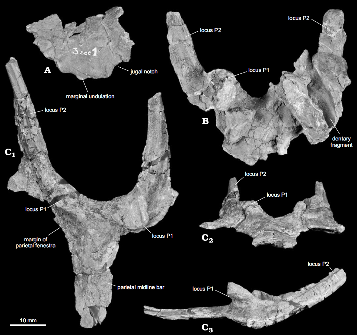 Centrosaurine ceratopsid Spinops sternbergorum gen. et sp. nov. from the Campanian of Dinosaur Provincial Park, southern Alberta. A. Partial right squamosal in lateral view, NHMUK R16309. B. Partial parietal with adherent bone fragments in dorsal view, NHMUK R16308. C. Partial parietal in dorsal (C1), rostral (C2), and left lateral (C3) views, holotype NHMUK R16307.